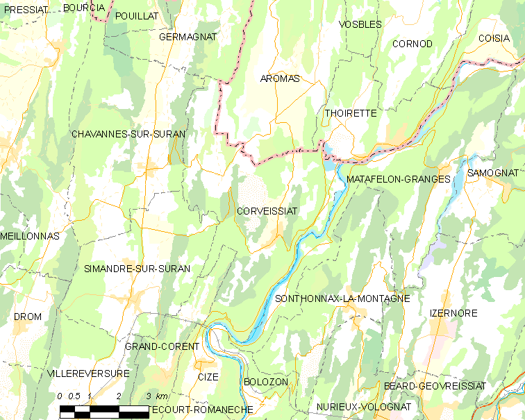 Map of French commune: Corveissiat Map commune FR insee code 01125.png